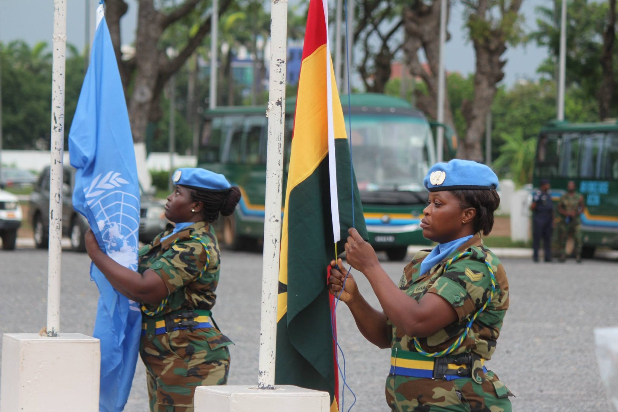 Two female soldiers of the UN peacekeeper contingent of the Ghana Army at the flag hoisting ceremony before the US Embassy in Accra on the occasion of the 70th anniversary of the United Nations on the 24th of October, 2015.Original caption: "Today marks 70 years of the founding of the United Nations. This morning, Chargé d'Affaires Melinda Tabler-Stone is joining the UN system in Ghana to mark the anniversary."